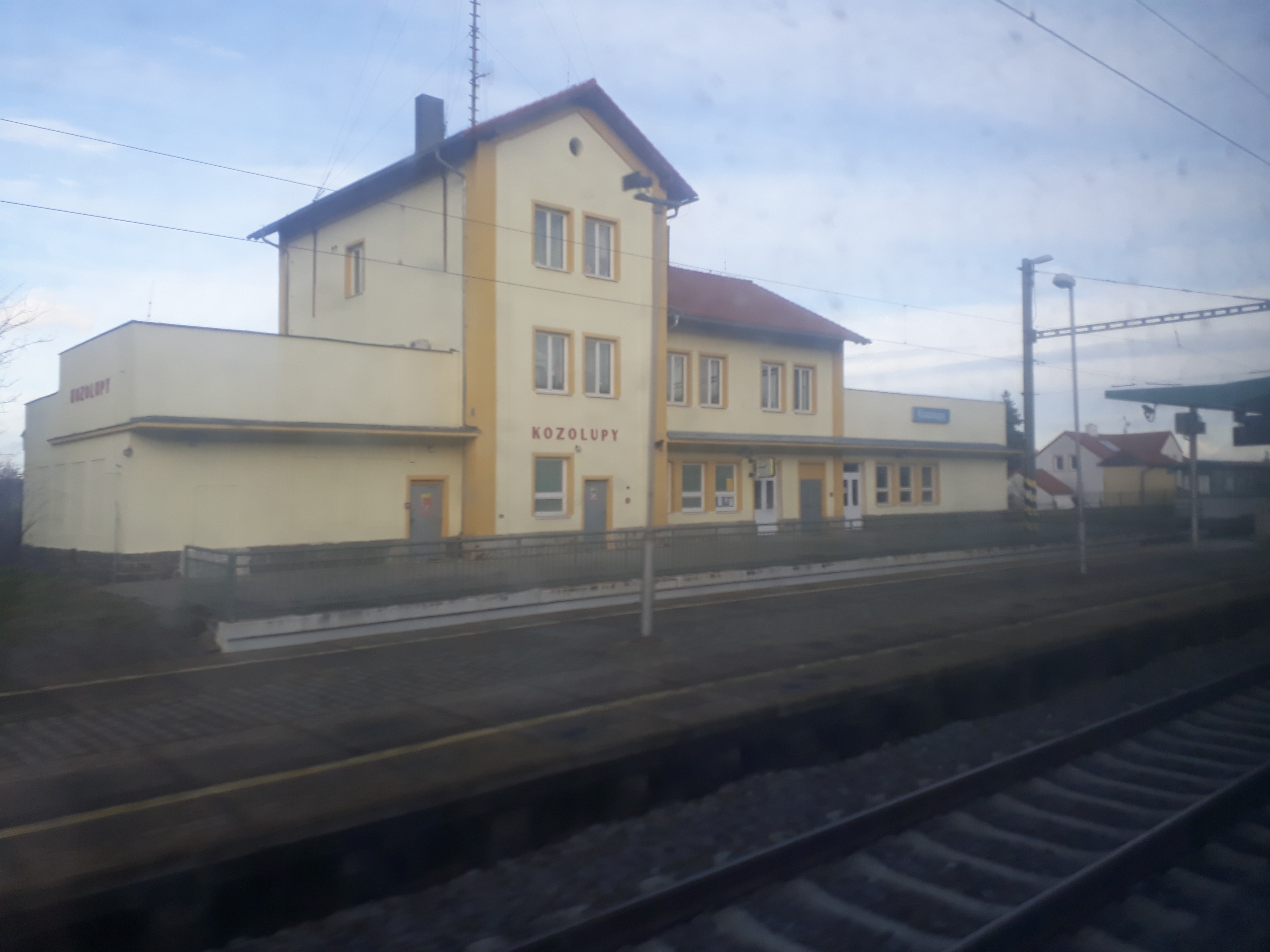 Kozolupy railway station